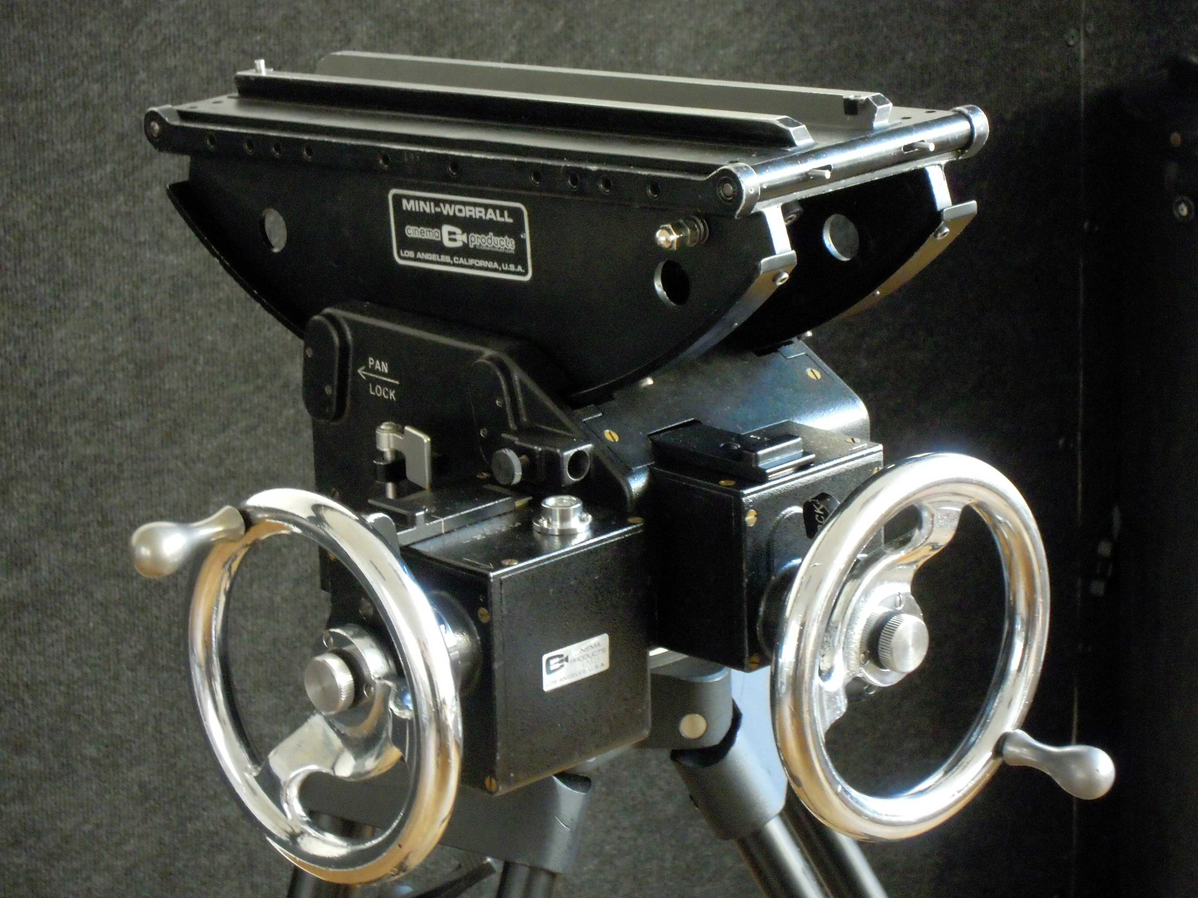 Mini Worrall geared head for motion picture produktion.